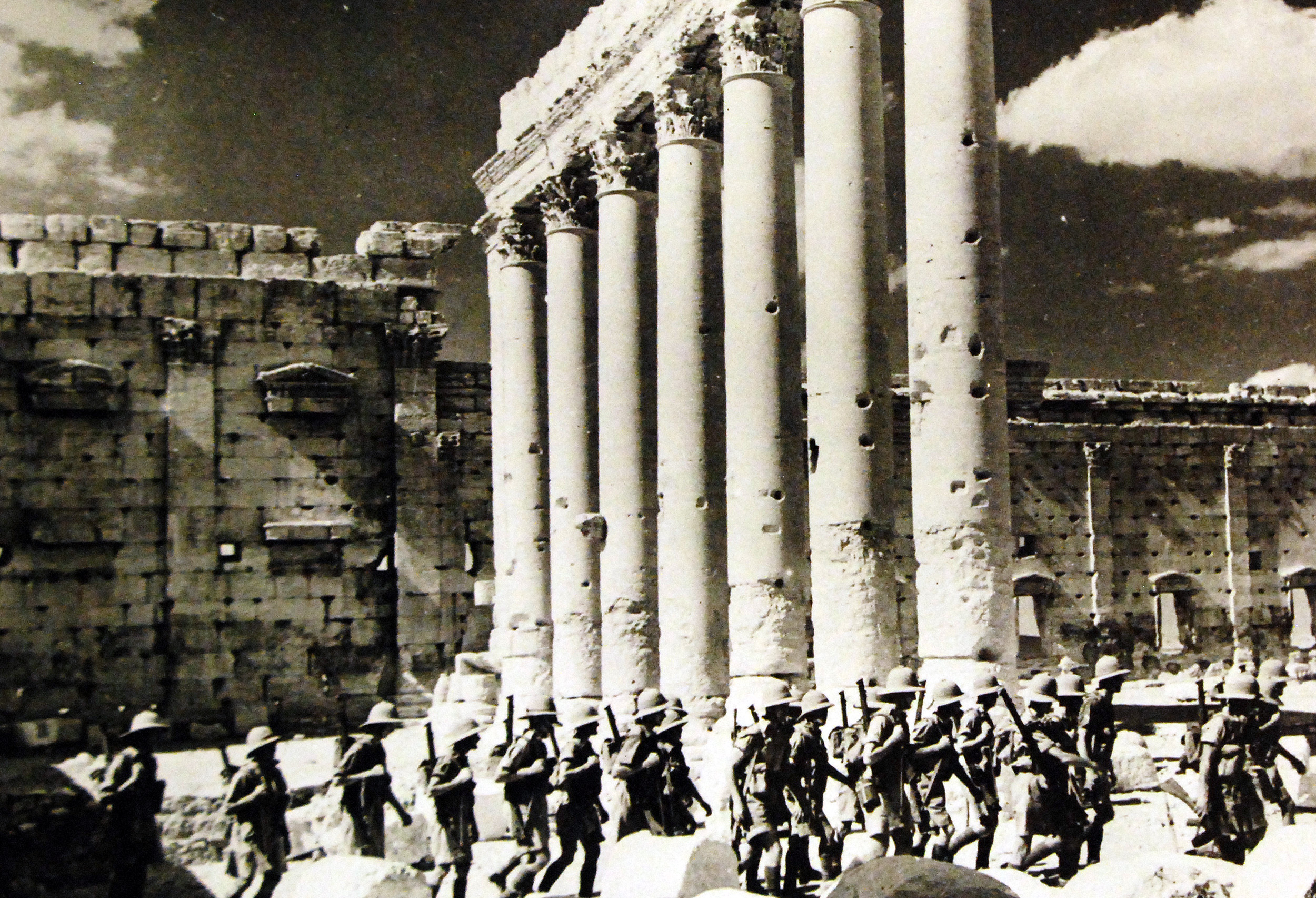 Lot 11643-4: Middle East Activities. Occupation of Palmyra, August 16, 1941. After strong opposition British troops occupied Palmyra in Eastern Syria. Shown: British troops entering the picturesque ruins of the Old Roman colonnade to search for the enemy. Office of War Information Photograph. (2016/02/11).